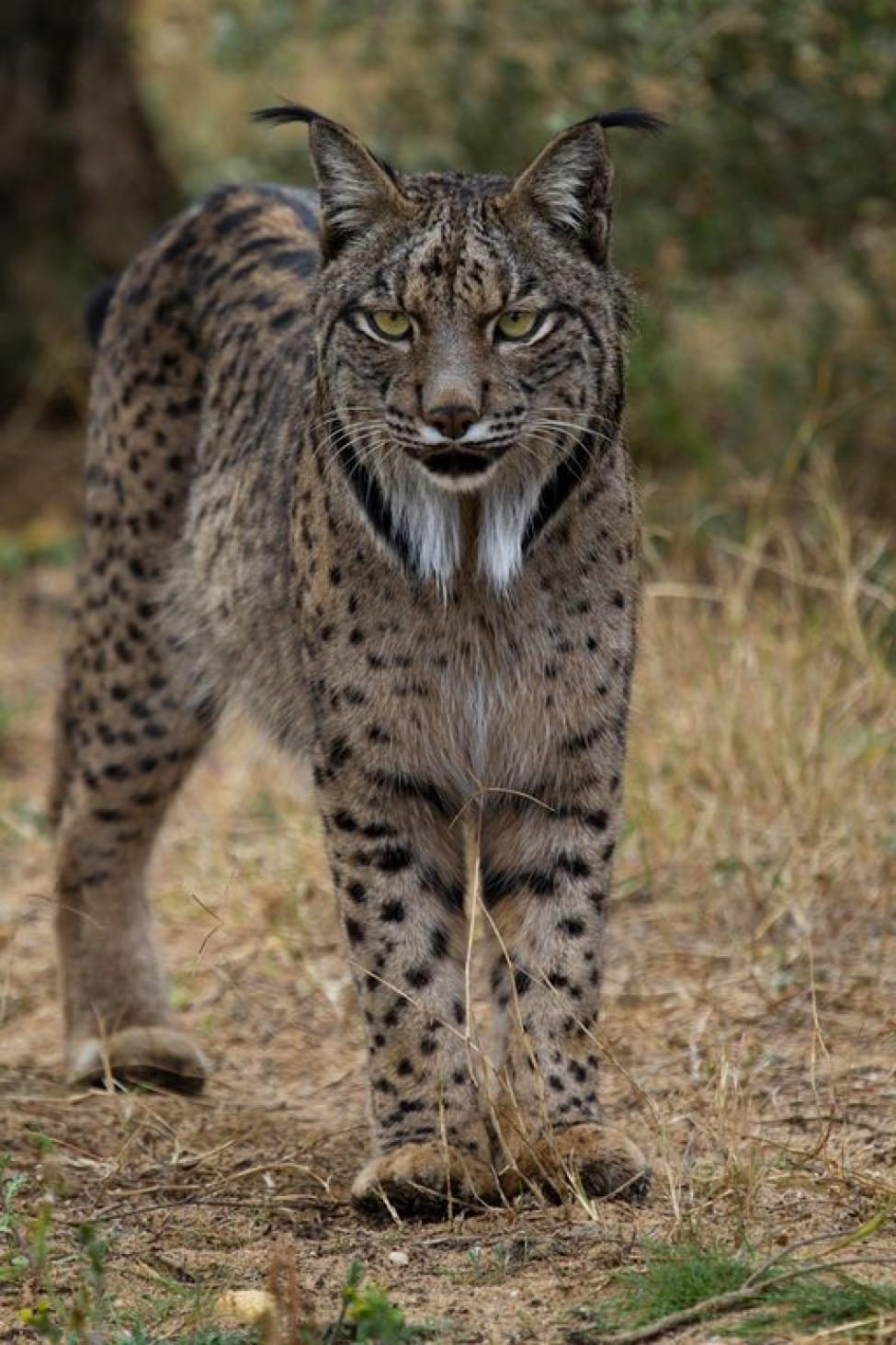 Iberian Lynx adult from the Program Ex-situ Conservation